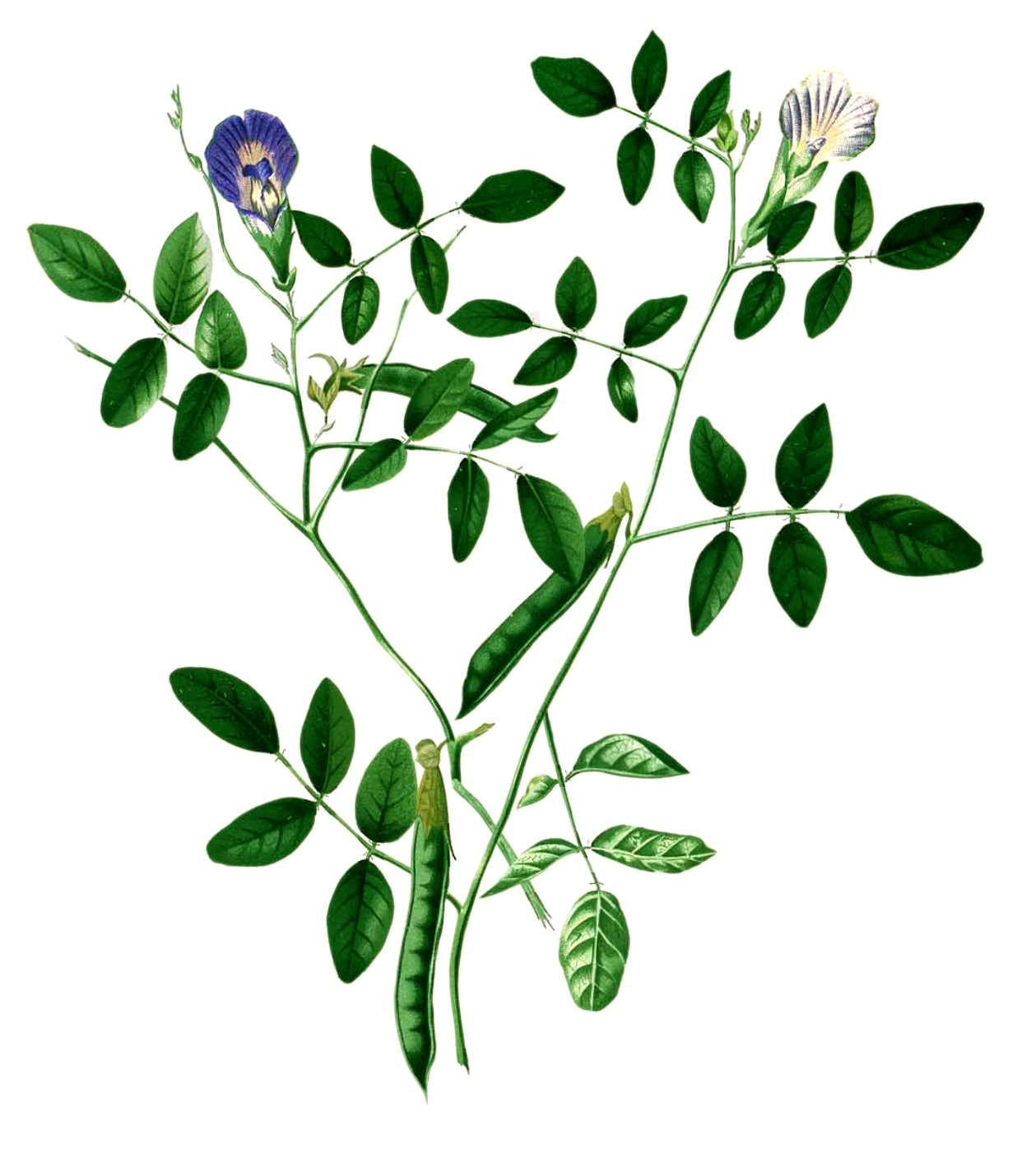 Name Clitoria ternatea Plate from book